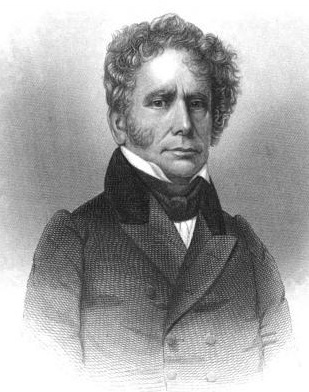 George Troup, U.S. Senator and Governor of Georgia